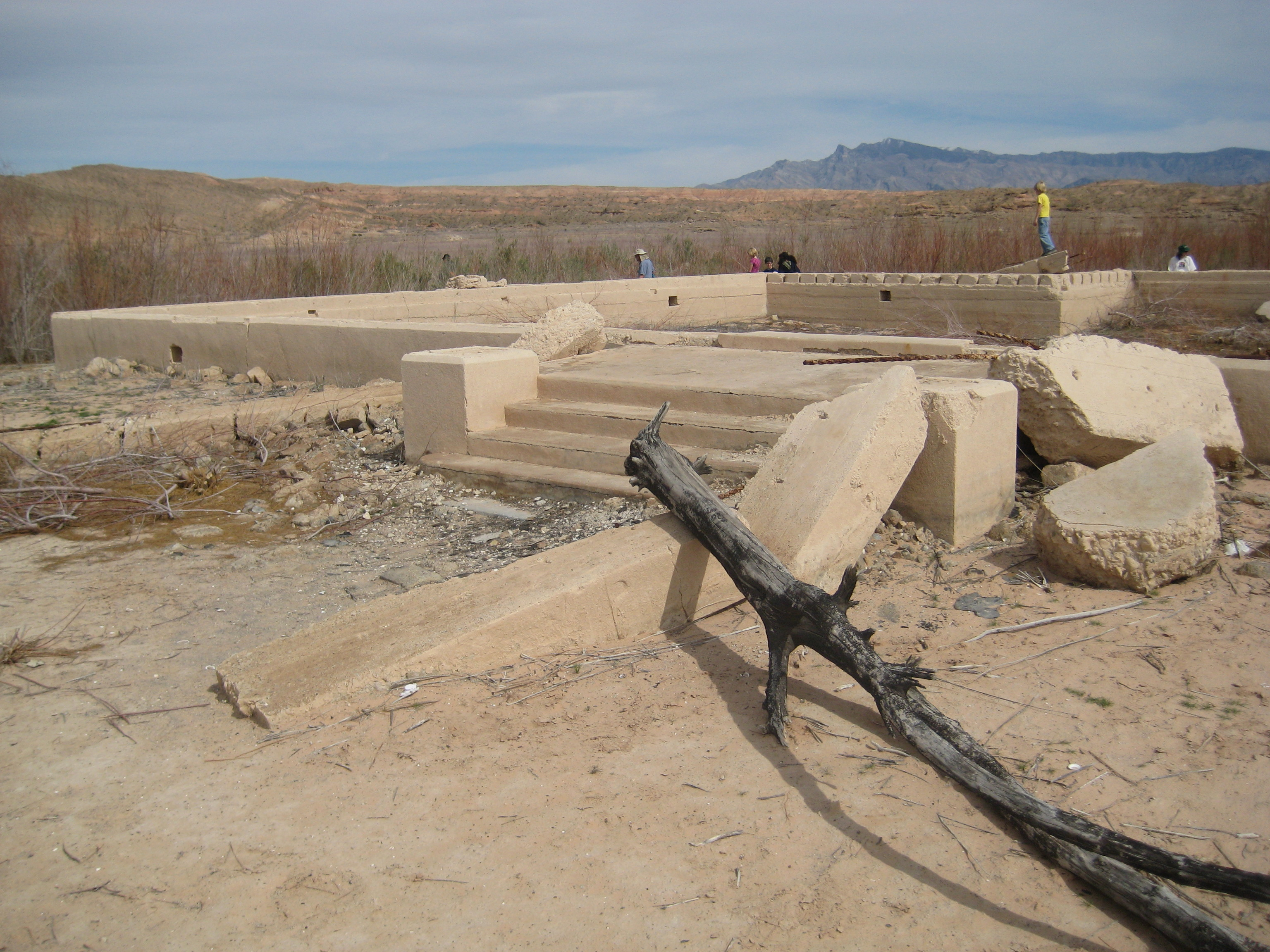 A building foundation located at St. Thomas, NV. The town was covered with water when Lake Mead was created, but recently exposed due to receding water levels.